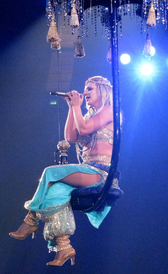 Britney Spears singing "Everytime" in the O2 Arena, London